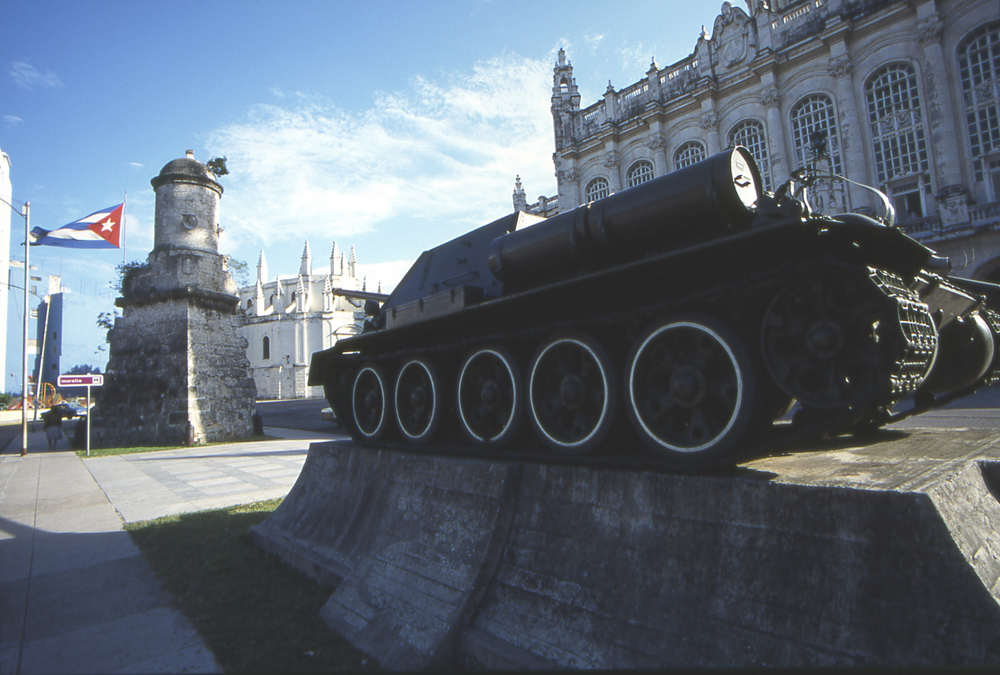 Downtown La Habana, Cuba. Photograph by Henryk Kotowski.